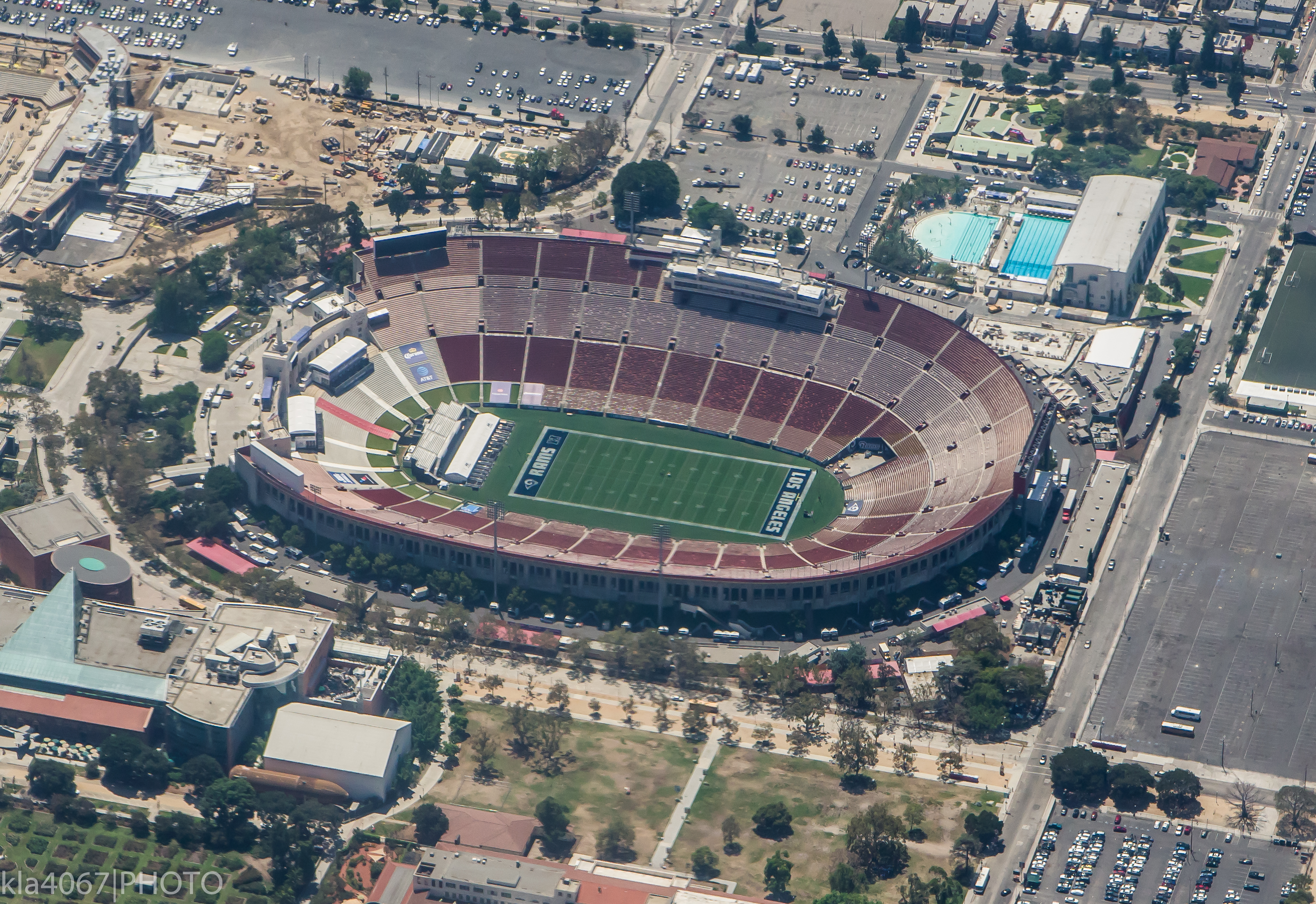 Los Angeles Memorial Coliseum aerial view, August 2017